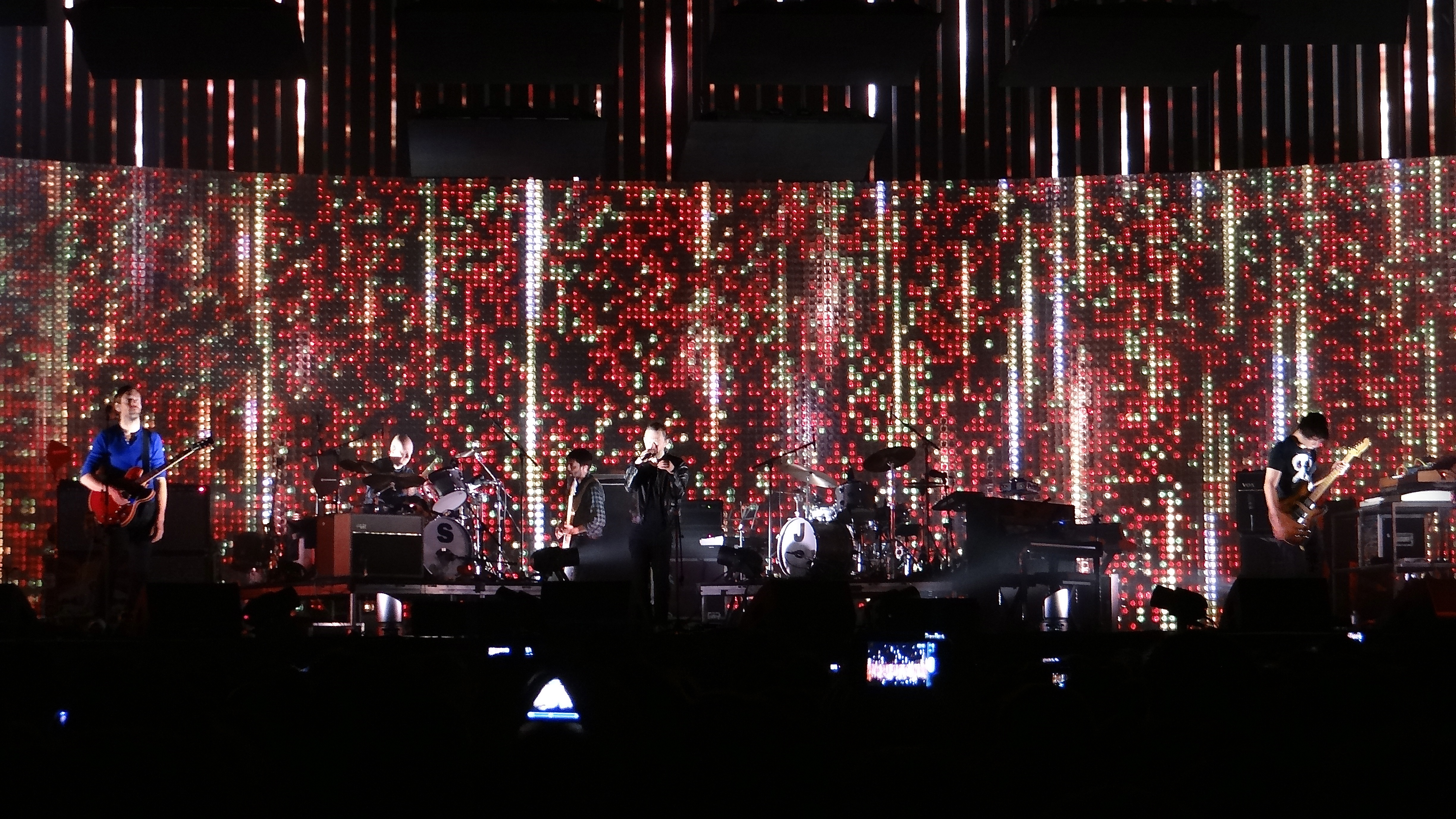 Radiohead live in Italy, 2012.